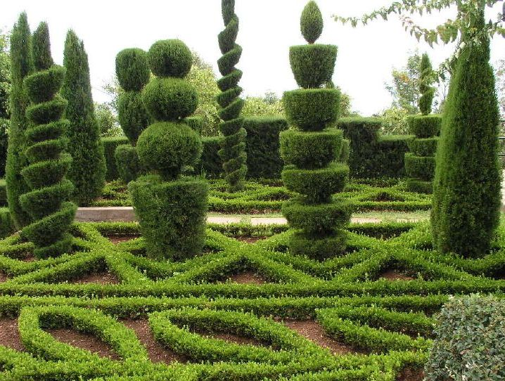 Category:Parterres and topiary in the Botanical Garden of Funchal, island of Madeira, Portugal